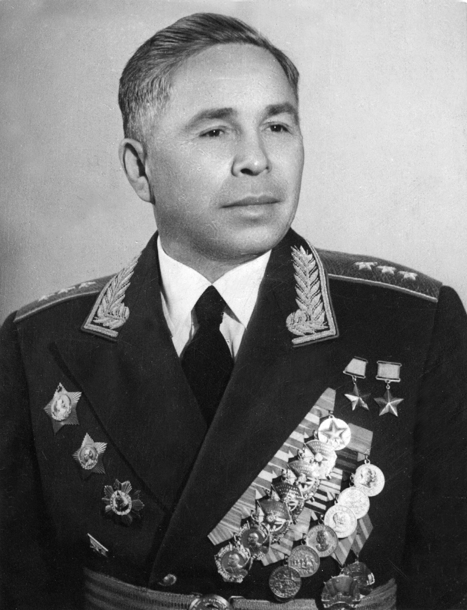 then-Colonel General Afanasy Beloborodov around the 1950s